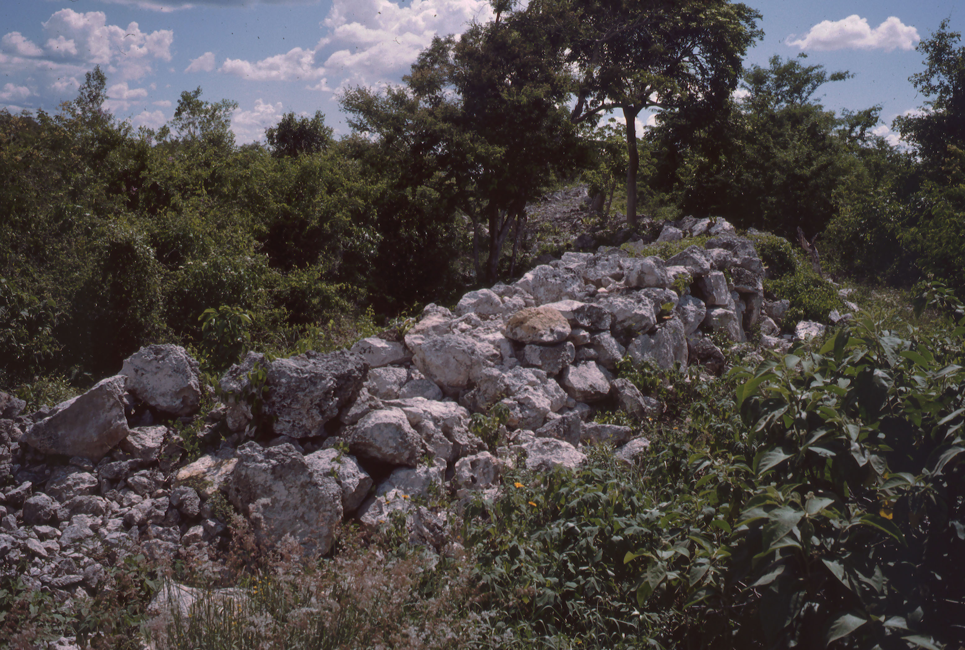 Mayapan, Yucatán, Mexico: city wall.